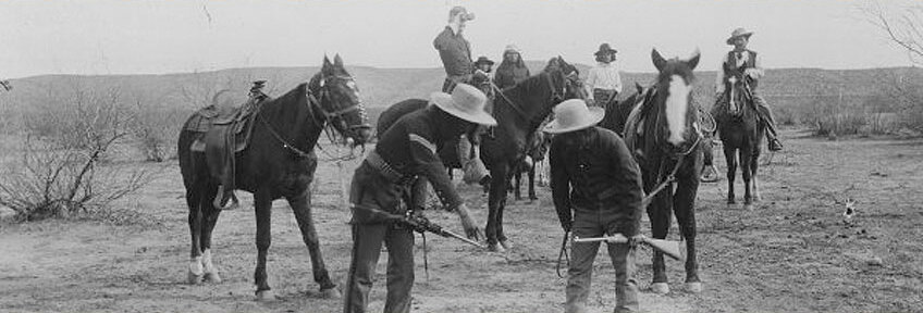 Observation by soldiers and Indian Scouts before the Battle of Big Dry Wash.